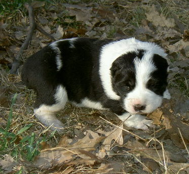 Central Asian Shepherd puppy breeder Anna Frumina Rusdog MKY RNBA